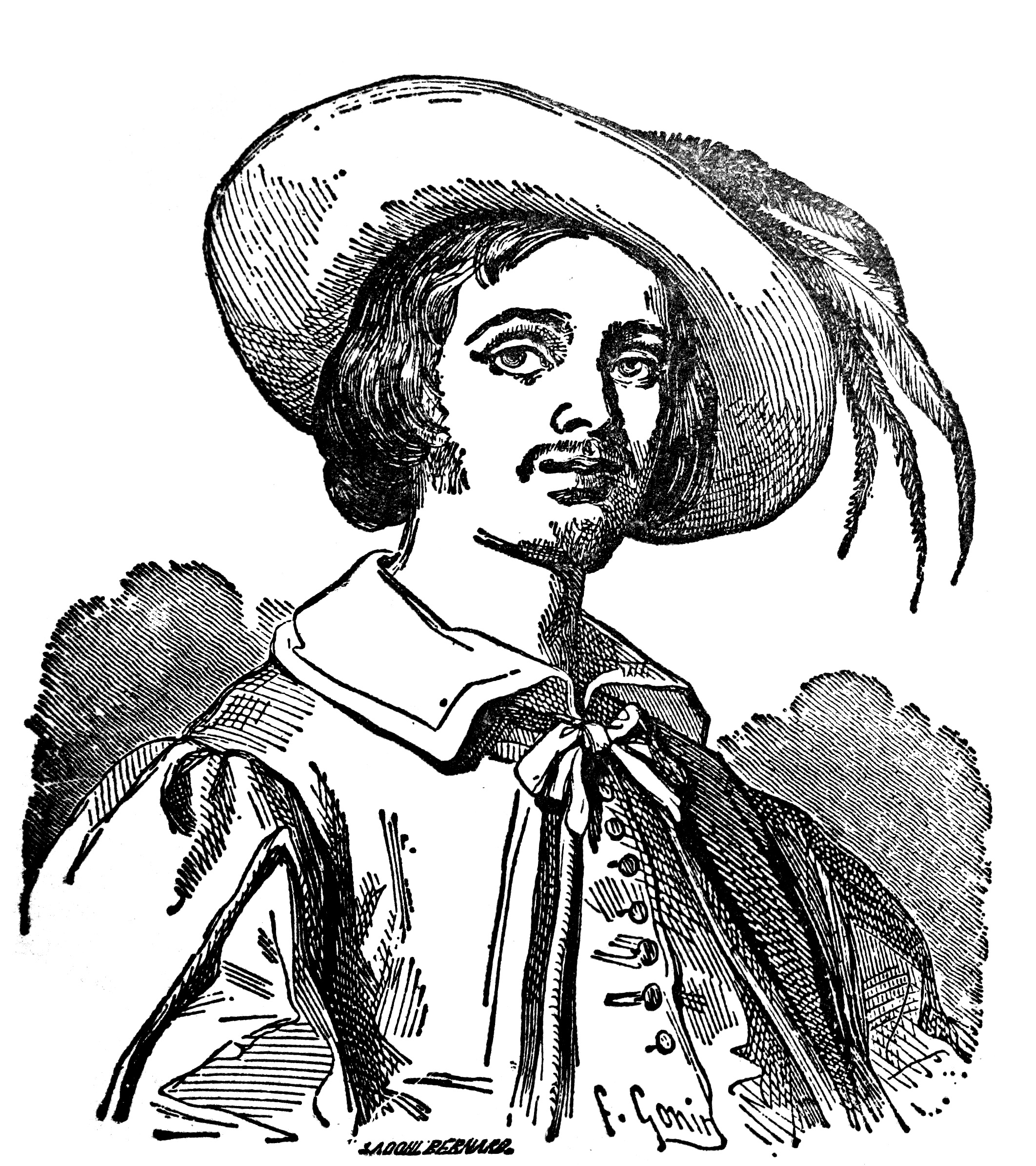 Picture from "I promessi sposi" of Renzo Tramaglino